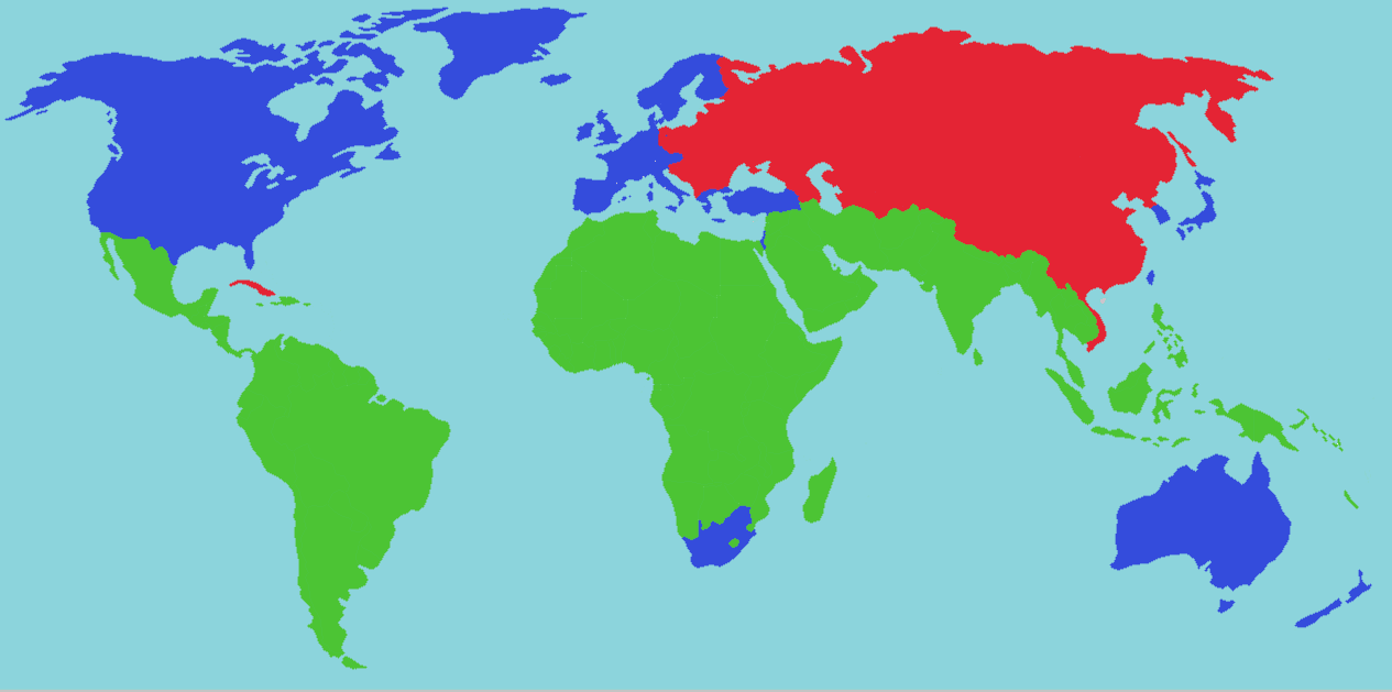 Shows traditional location of "First World", "Second World" and "Third World" countries during the Cold War: Blue: First World (Developed countries) Red: Second World (Current and/or former Communist countries. Not as common a used term; many of these countries are now considered first or third world) Green: Third World (Developing countries)